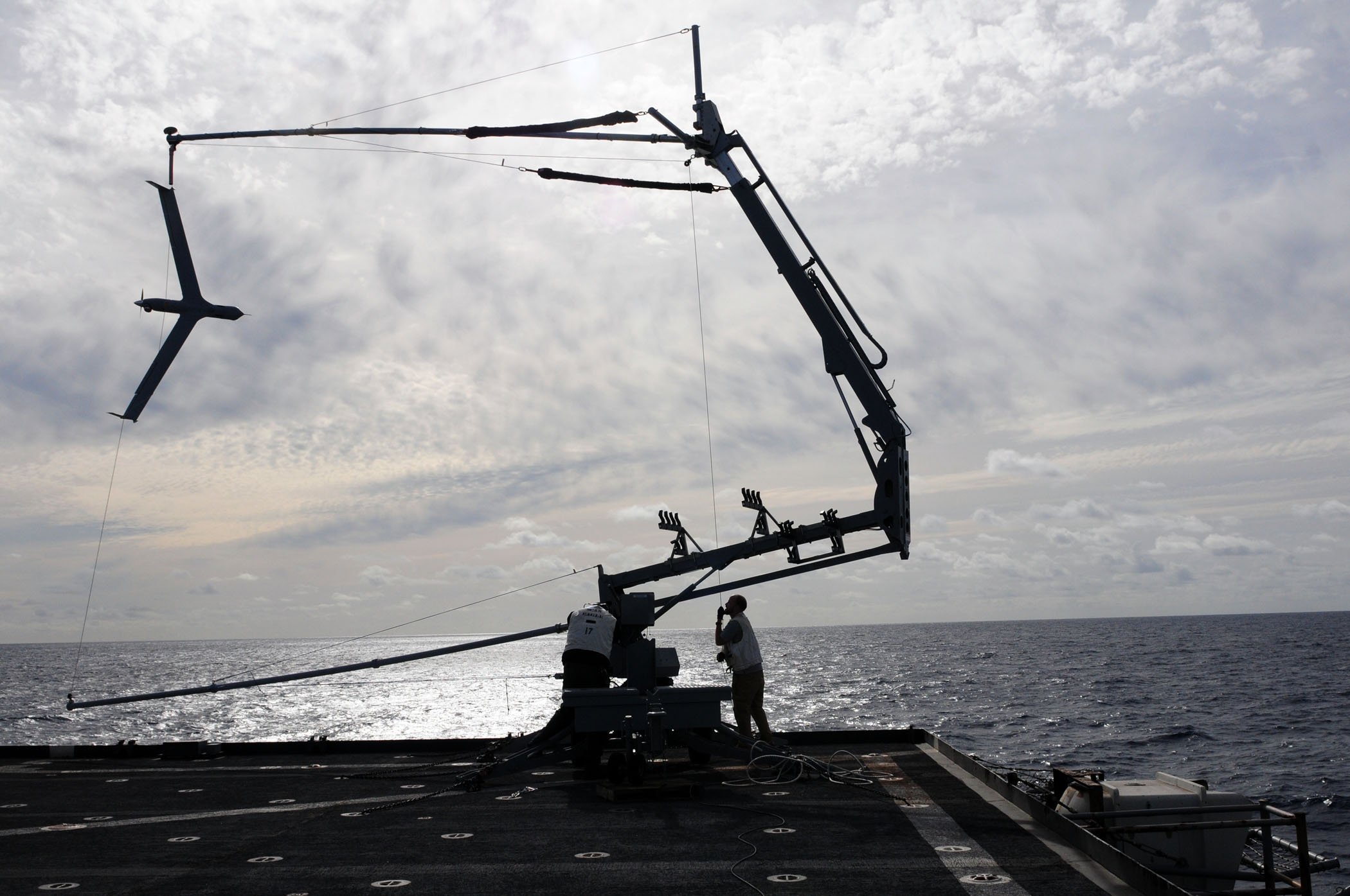 PACIFIC OCEAN (Feb. 26, 2011) Members of the Scan Eagle team position the Skyhook arrested recovery system over the flight deck to remove a Scan Eagle unmanned aerial vehicle aboard the amphibious dock landing ship USS Comstock (LSD 45). The Skyhook system allows Scan Eagle to operate from several platforms, including forward fields, mobile vehicles and small ships. Scan Eagle is a runway independent, long-endurance, unmanned aerial vehicle system designed to provide multiple surveillance, reconnaissance data, and battlefield damage assessment missions. Comstock is part of the Boxer Amphibious Ready Group and is underway in the U.S. 7th Fleet area of responsibility. (U.S. Navy photo by Mass Communication Specialist 2nd Class Joseph M. Buliavac/Released)